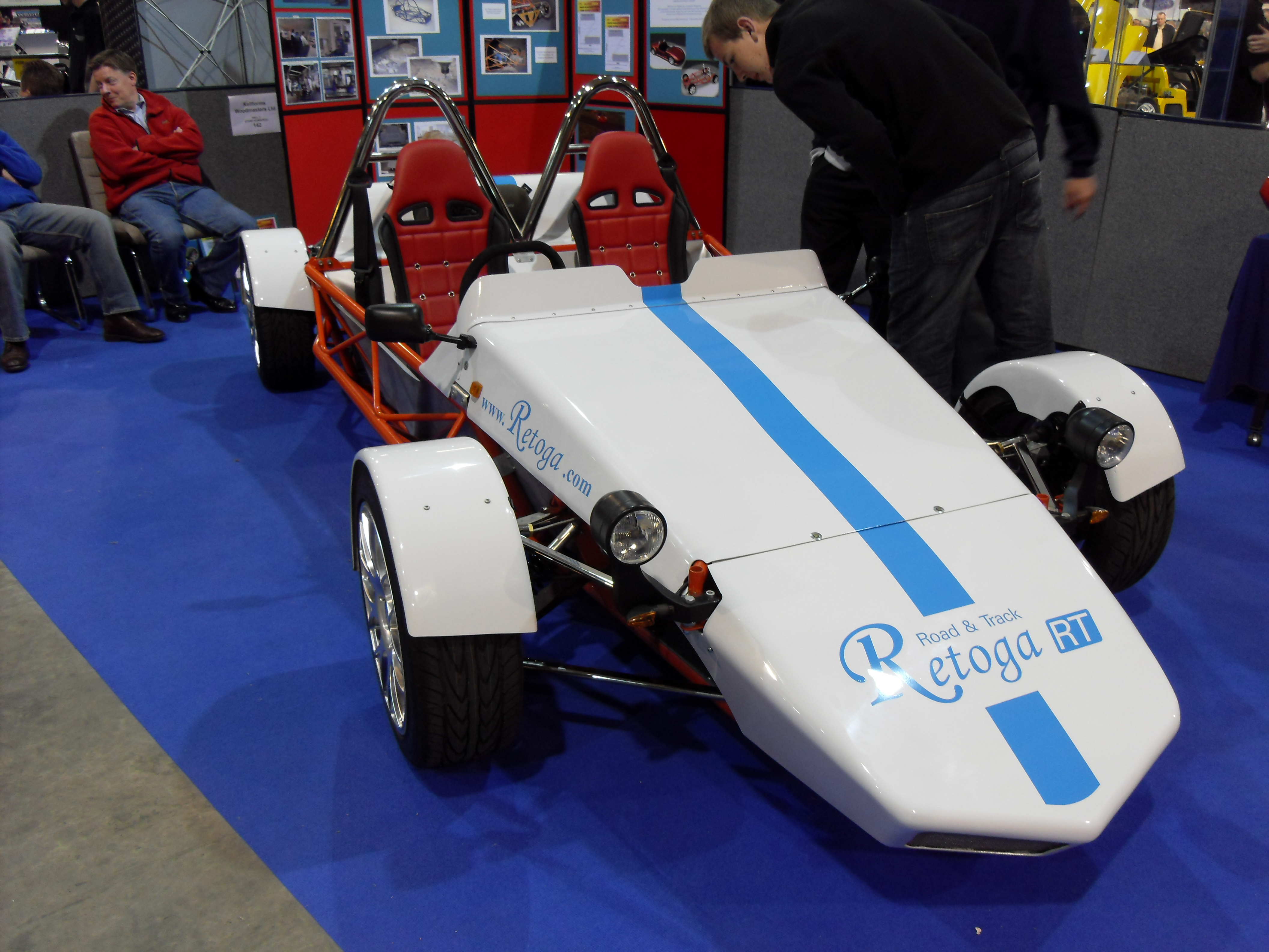 VLUU L310 W / Samsung L310 W taken at The National Kit Car Show Stoneleigh 2009